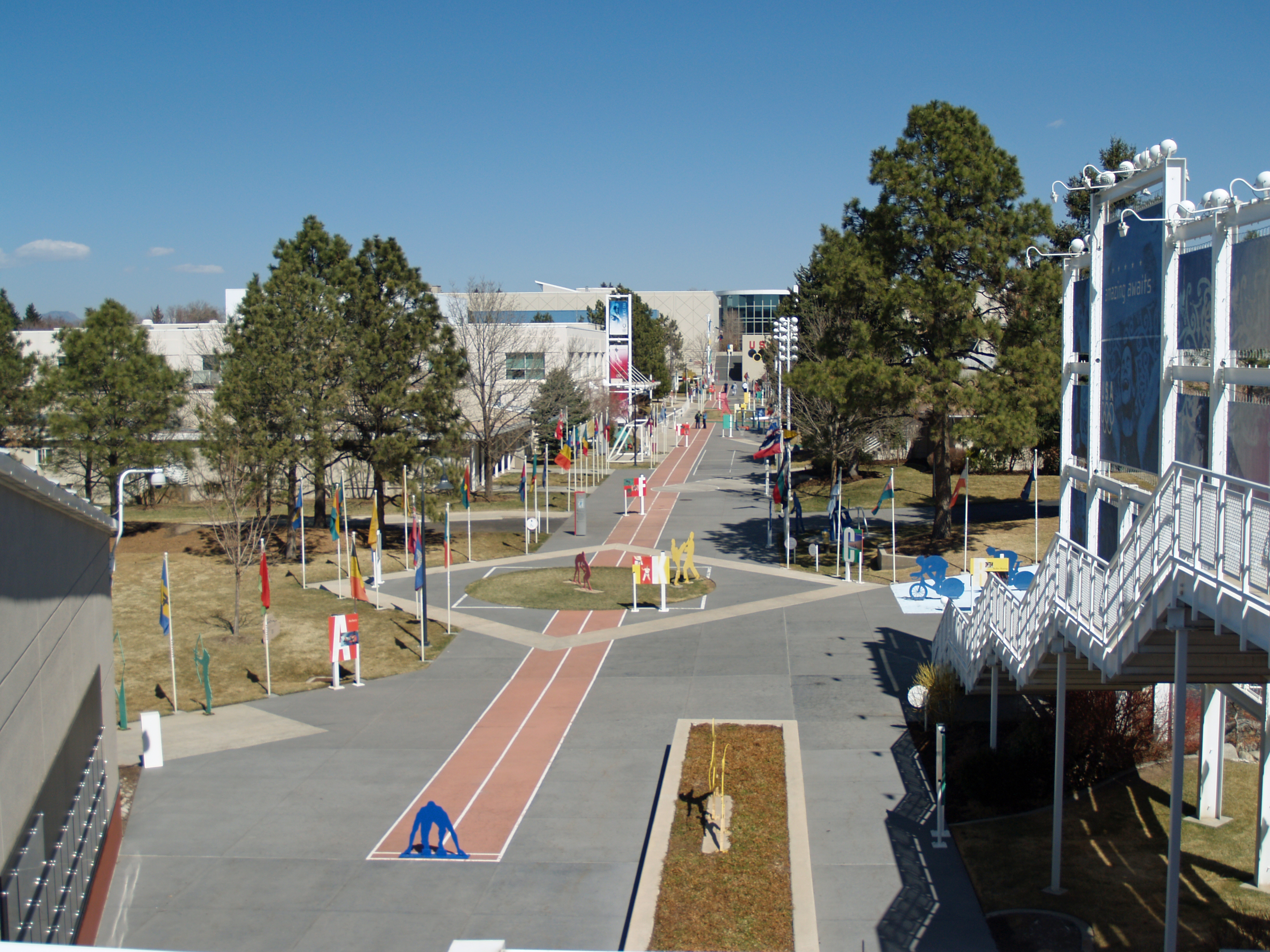 United States Olympic Committee headquarters in Colorado Springs.